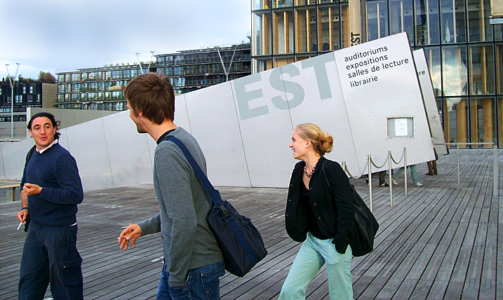 The East side entrance/exit of the BNF. The BNF is used by a large number of students and young people. Paris.